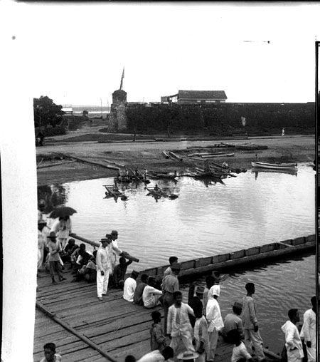 A view of the Southwestern bastion from the waterfront. Fort San Pedro in early 20th century photograph.